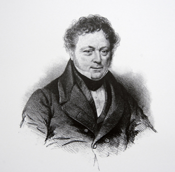 A portrait of Macquart